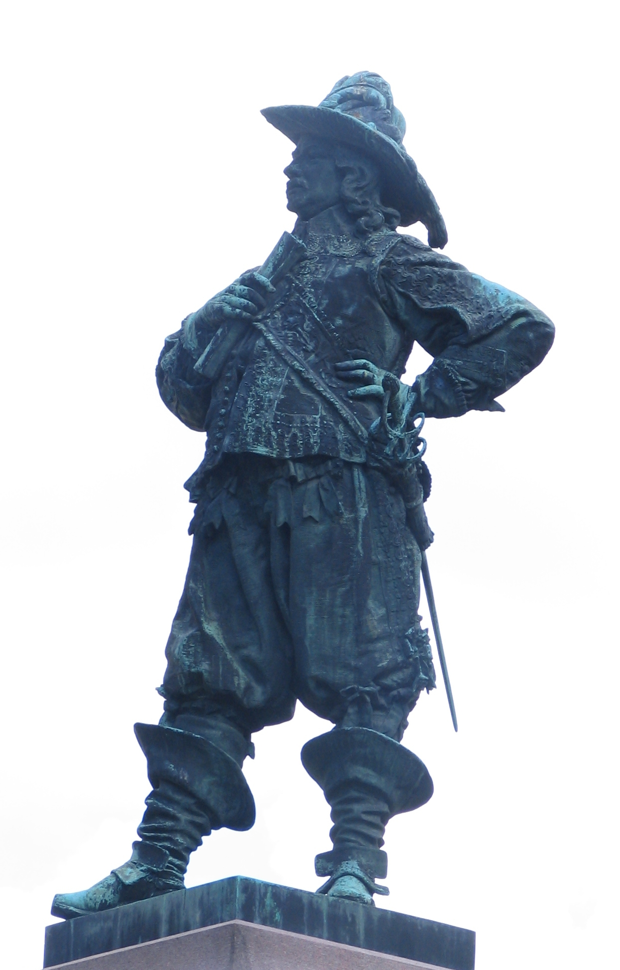 Per Brahes statue in Turku,Finland